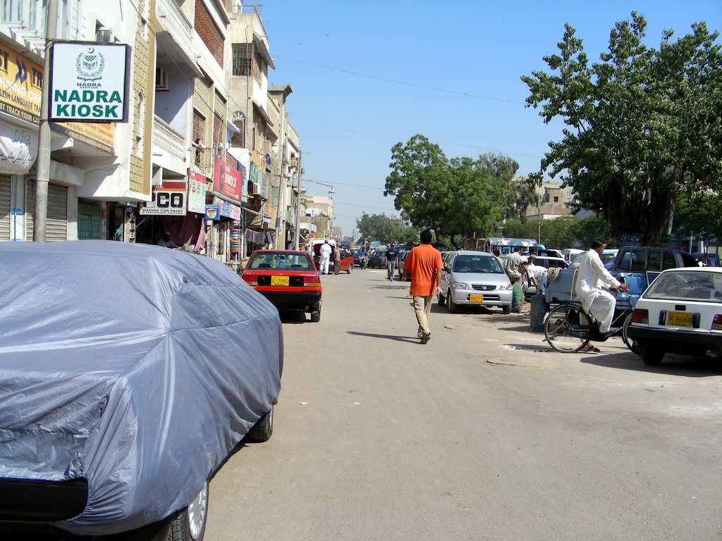 Market area of Alfalah Society.